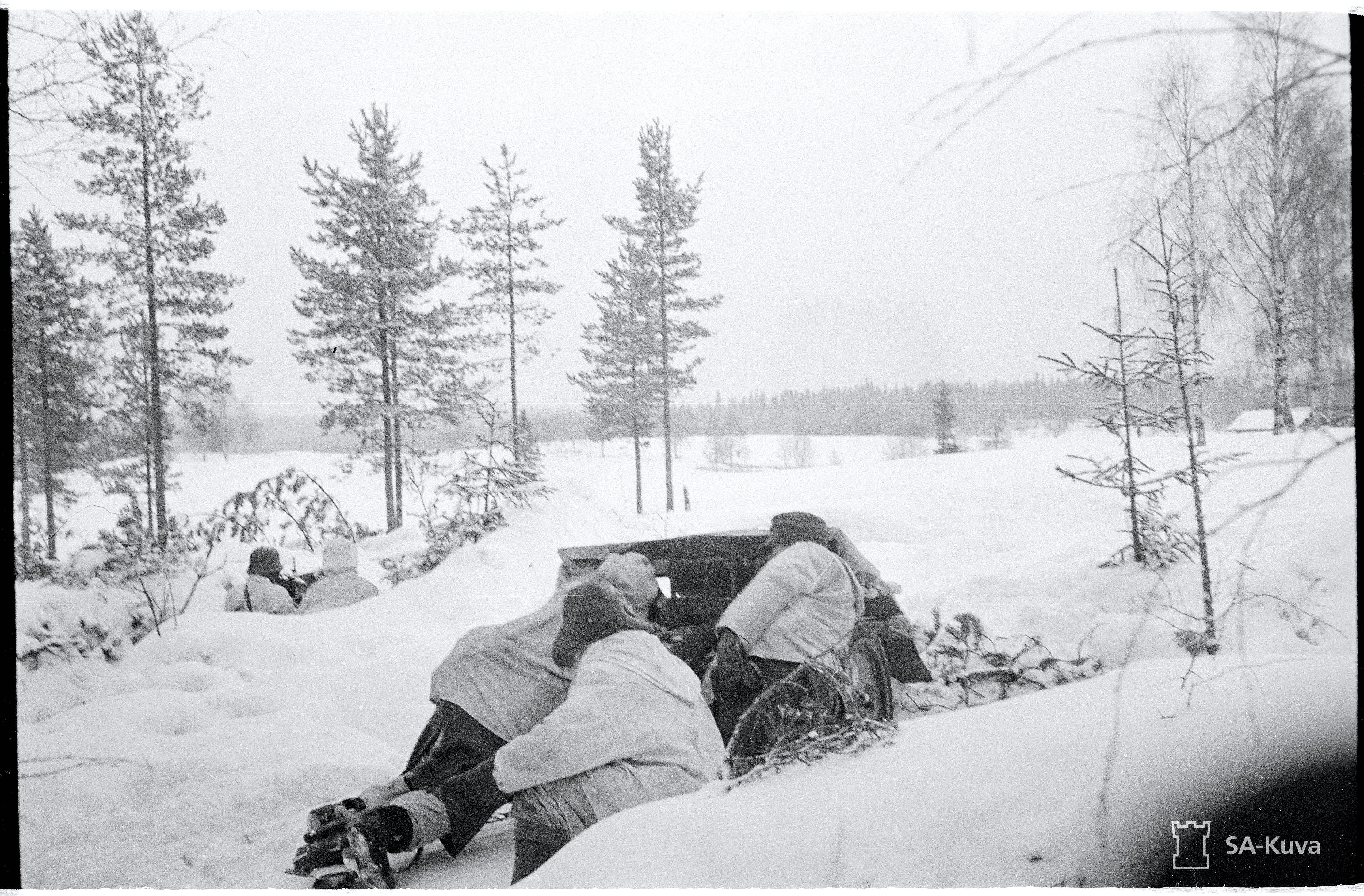 Anti-tank artillery and machine gun in firing position during the Winter War between Soviet Union and Finland at Ruhtinaanmäki 14. January 1940. The Soviet troops had attacked Finland and at Ruhtinaanmäki, 70 km from the border the Finnish forces managed to stop the attack, turning into offensive, eventually routing and destroying the attacking forces. SA-kuva.